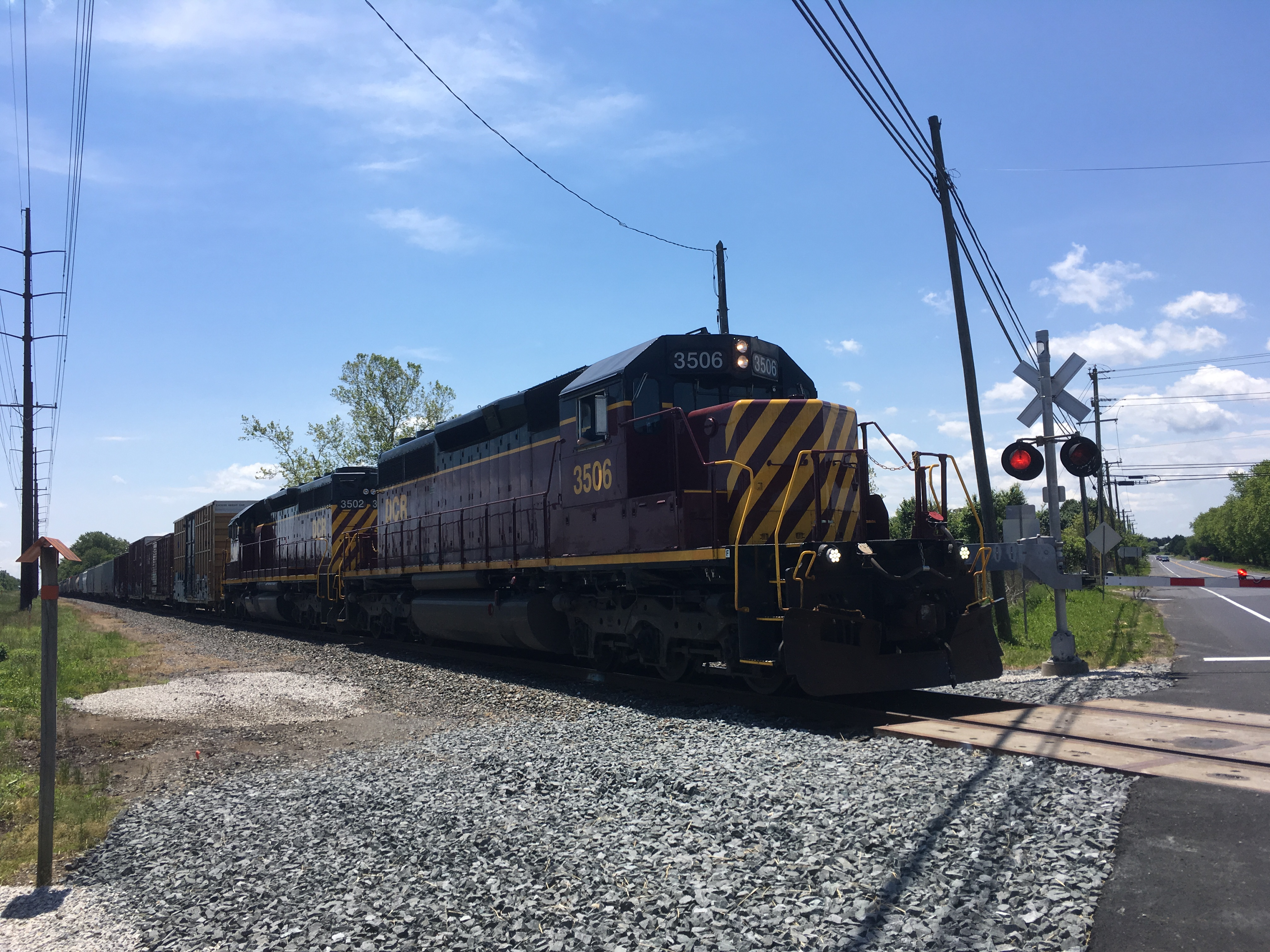 Delmarva Central Railroad EMD SD40-2 3506 leads a manifest freight northbound on the Delmarva Subdivision across Delaware Route 300 (Wheatleys Pond Road) in Clayton, Delaware